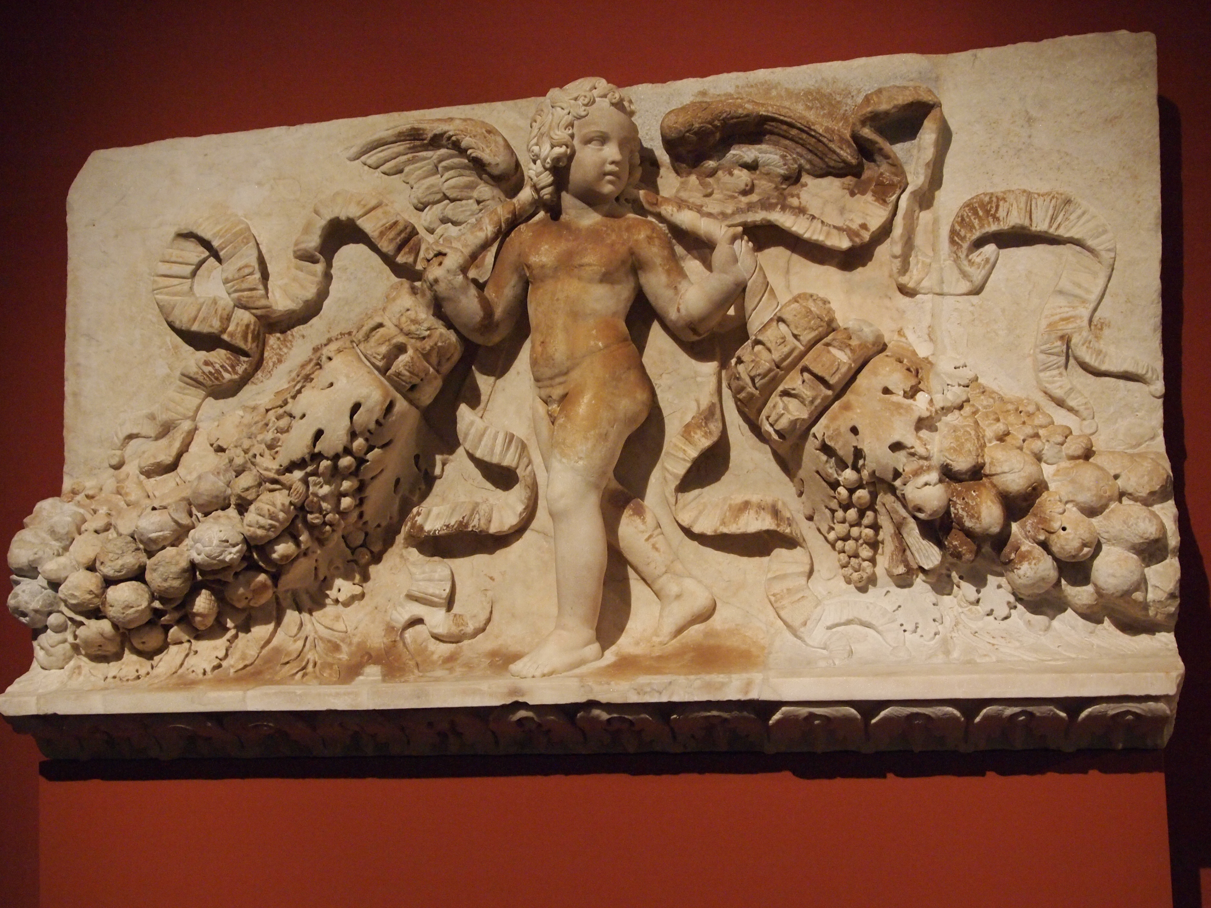 Decoration from Miletus